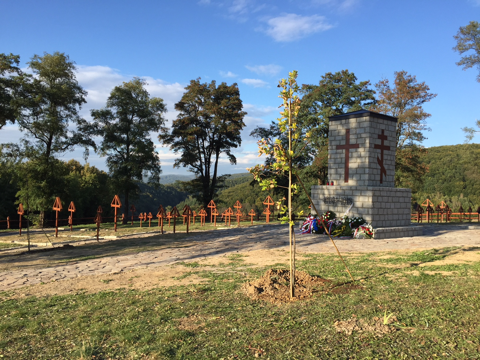 The Tree of Peace in Veľkrop, Slovakia (Quercus robur "Concordia")